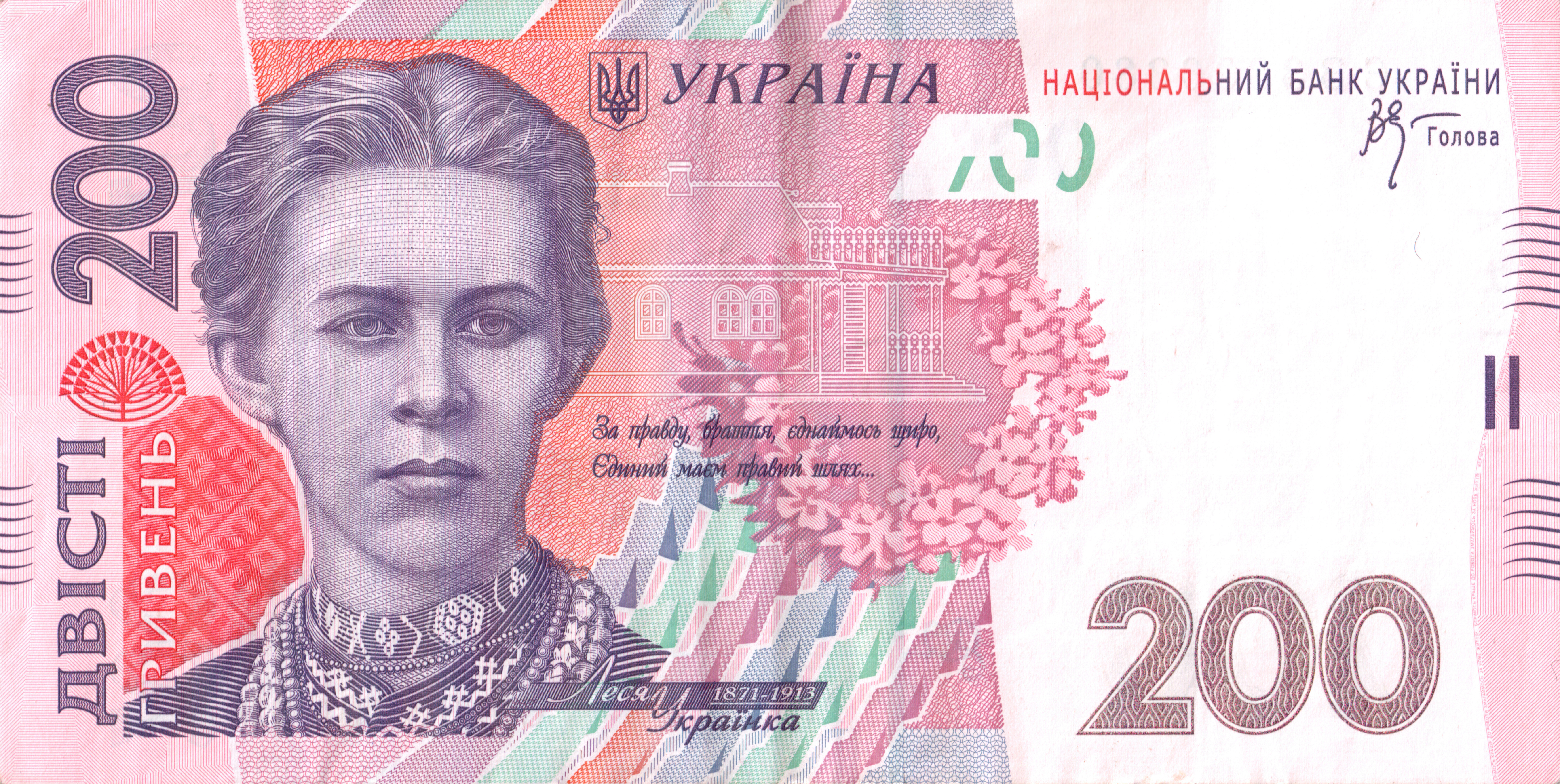 banknote of Ukraine. 200 Hryvnia.